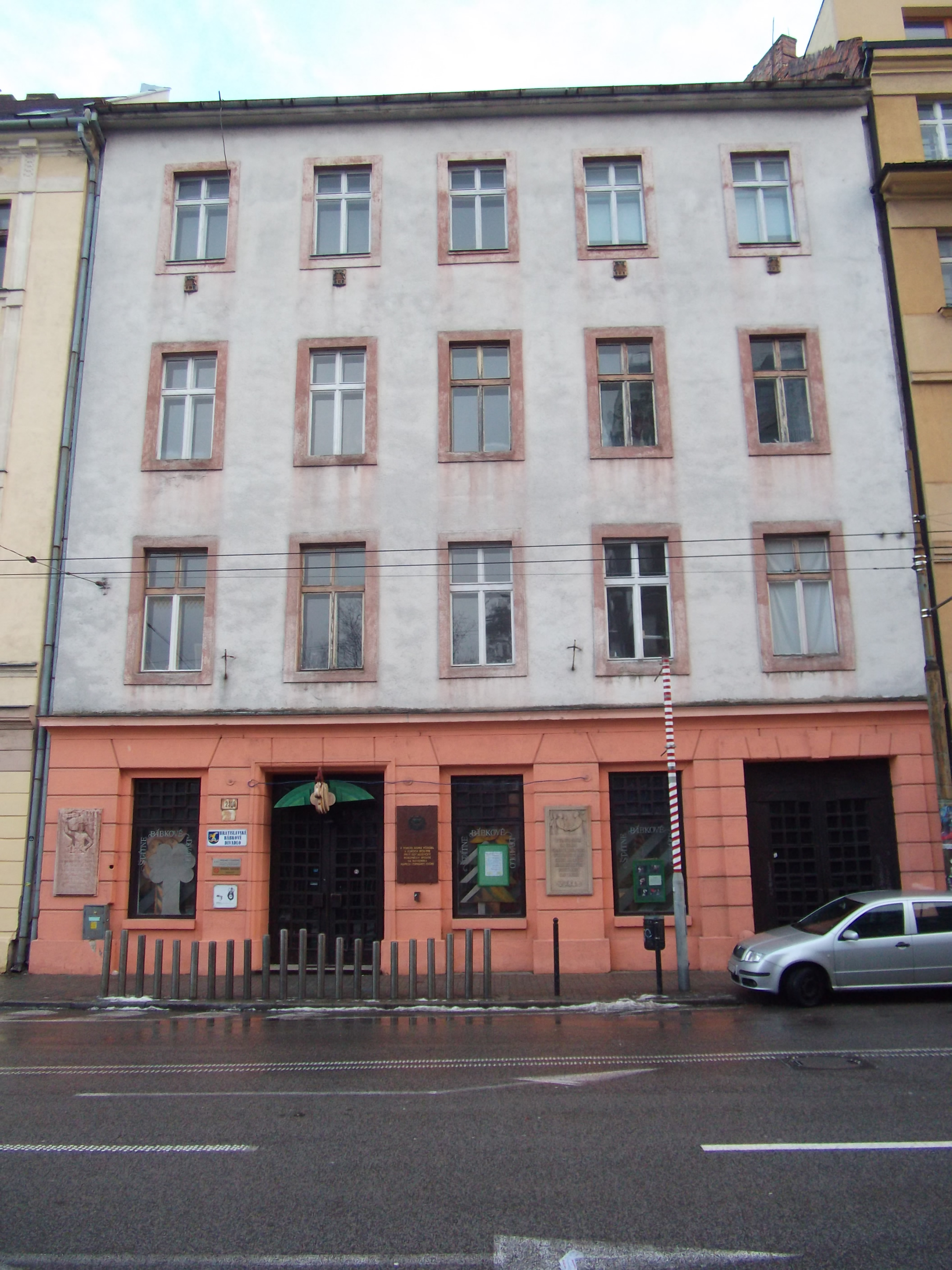 Bratislava puppet theatre at Danube street 36